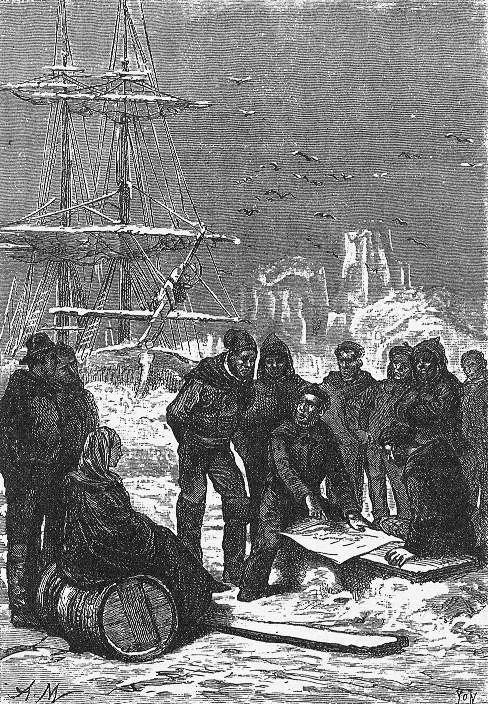 An illustration from Jules Verne's short story "A Winter Amid the Ice" (1855) drawn by Adrien Marie.